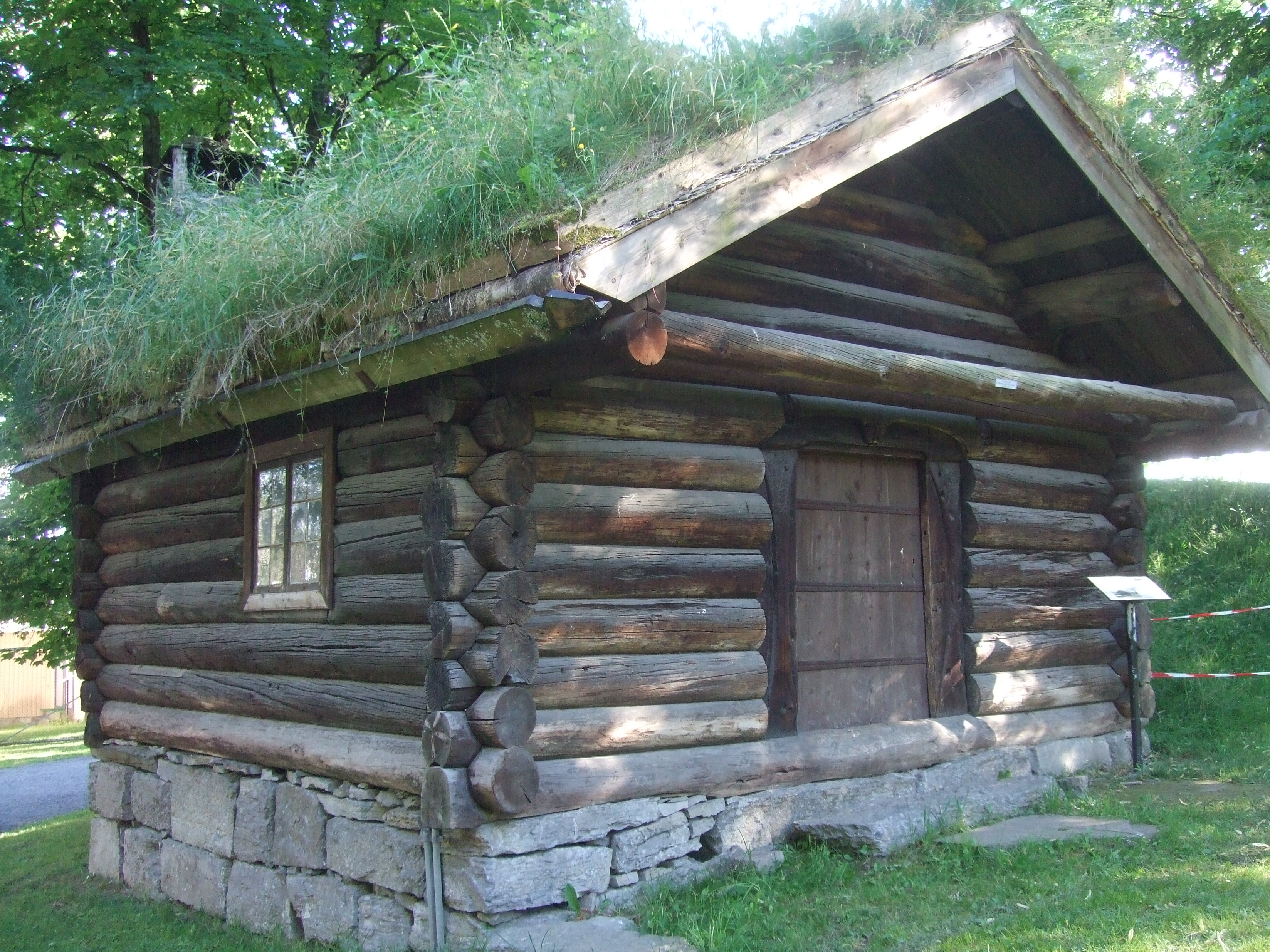 Late medieval farm building from Telemark county in Norway. This kind of building was known as an "eldhus", literally a "fire house", because the farm's fireplaces for baking and cooking would be found there. This particular "eldhus" was originally situated on the Berge farm at Miland in the municipality of Tinn in Telemark county. In 1962, the Berge eldhus was transferred to the outdoor museum in the city of Skien further south in Telemark county.